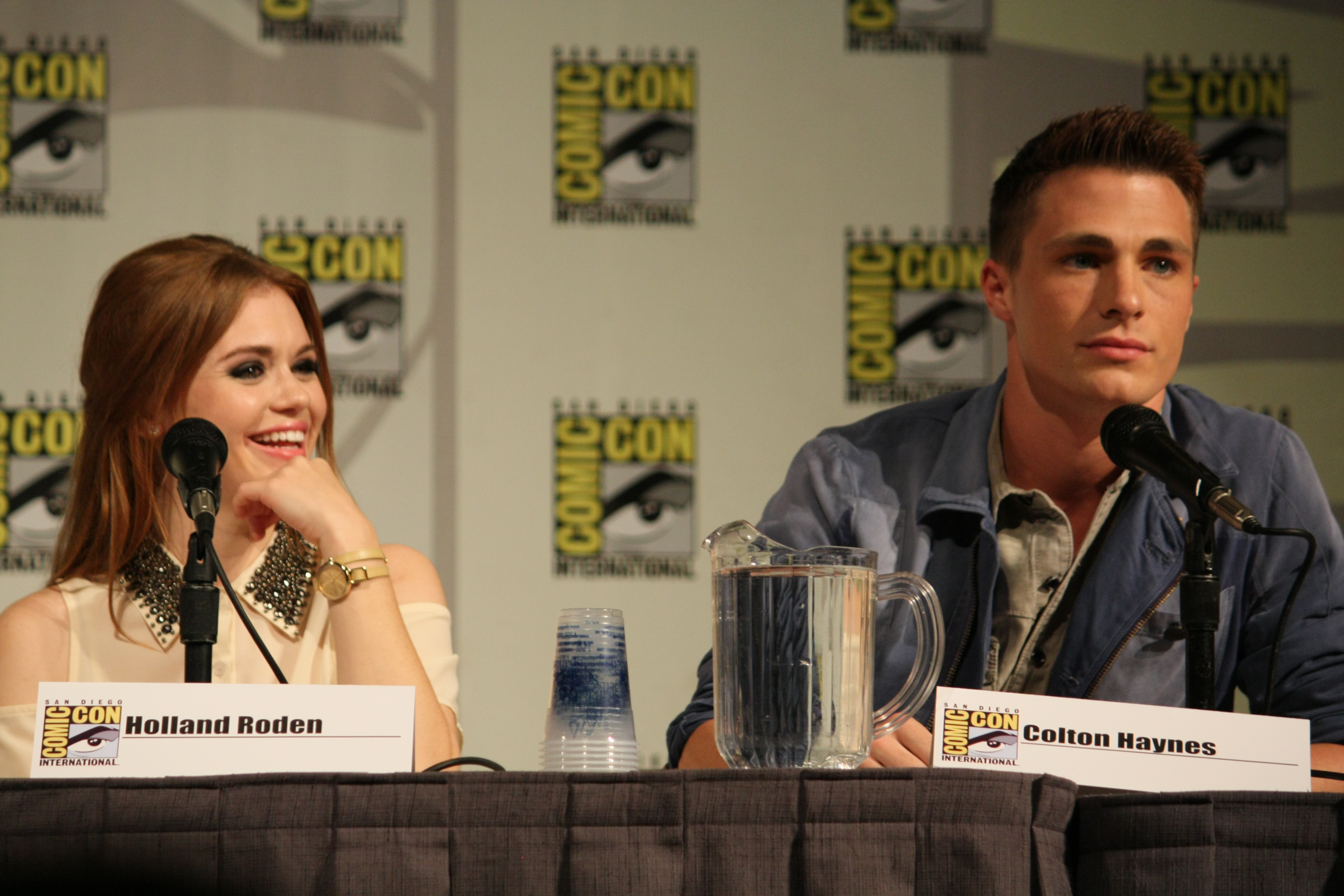 Holland Roden (Lydia) & Colton Haynes (Jackson)